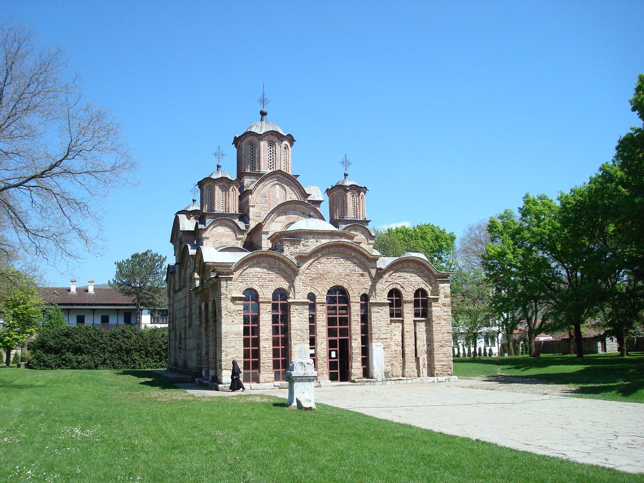 Gračanica monastery (Kosovo) in may 2010